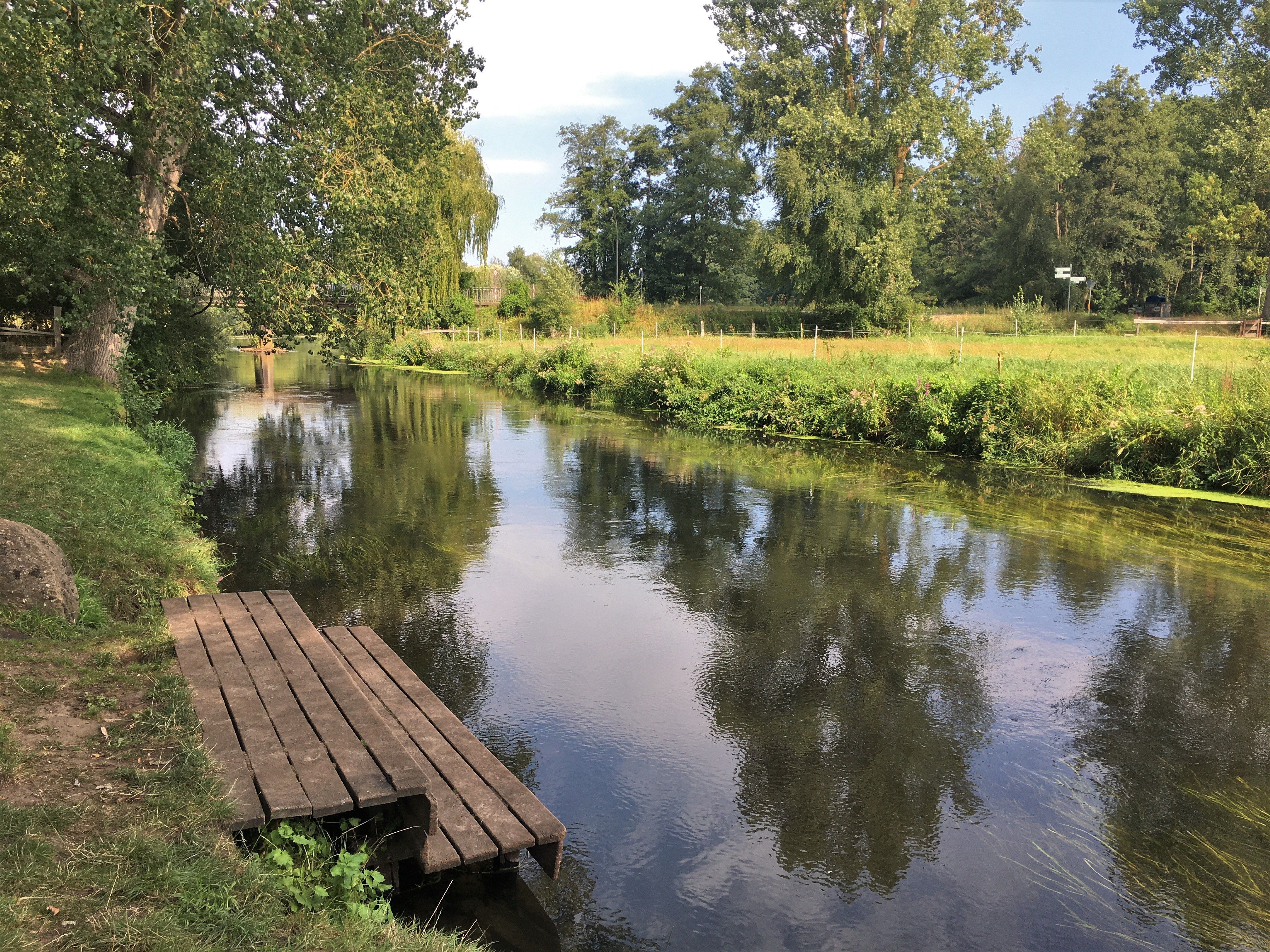 Boat landing stage at the Ilmenau in Wichmannsburg in the Lower Saxonian district of Uelzen.